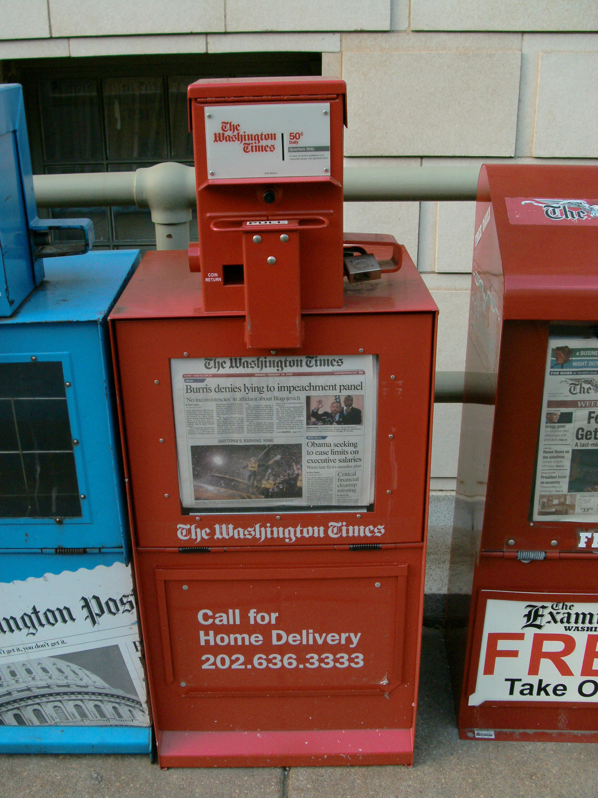 Image I took for Wikipedia